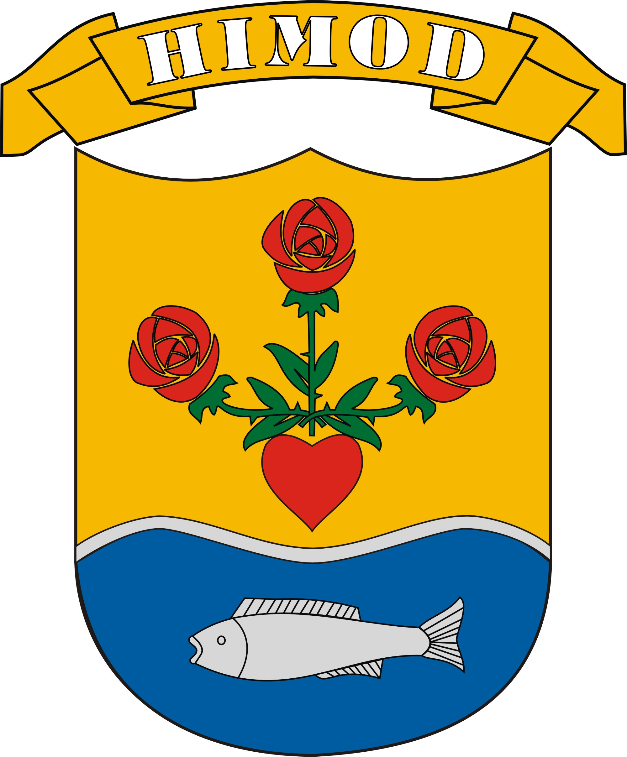 Coat of arms of Himod, Hungary